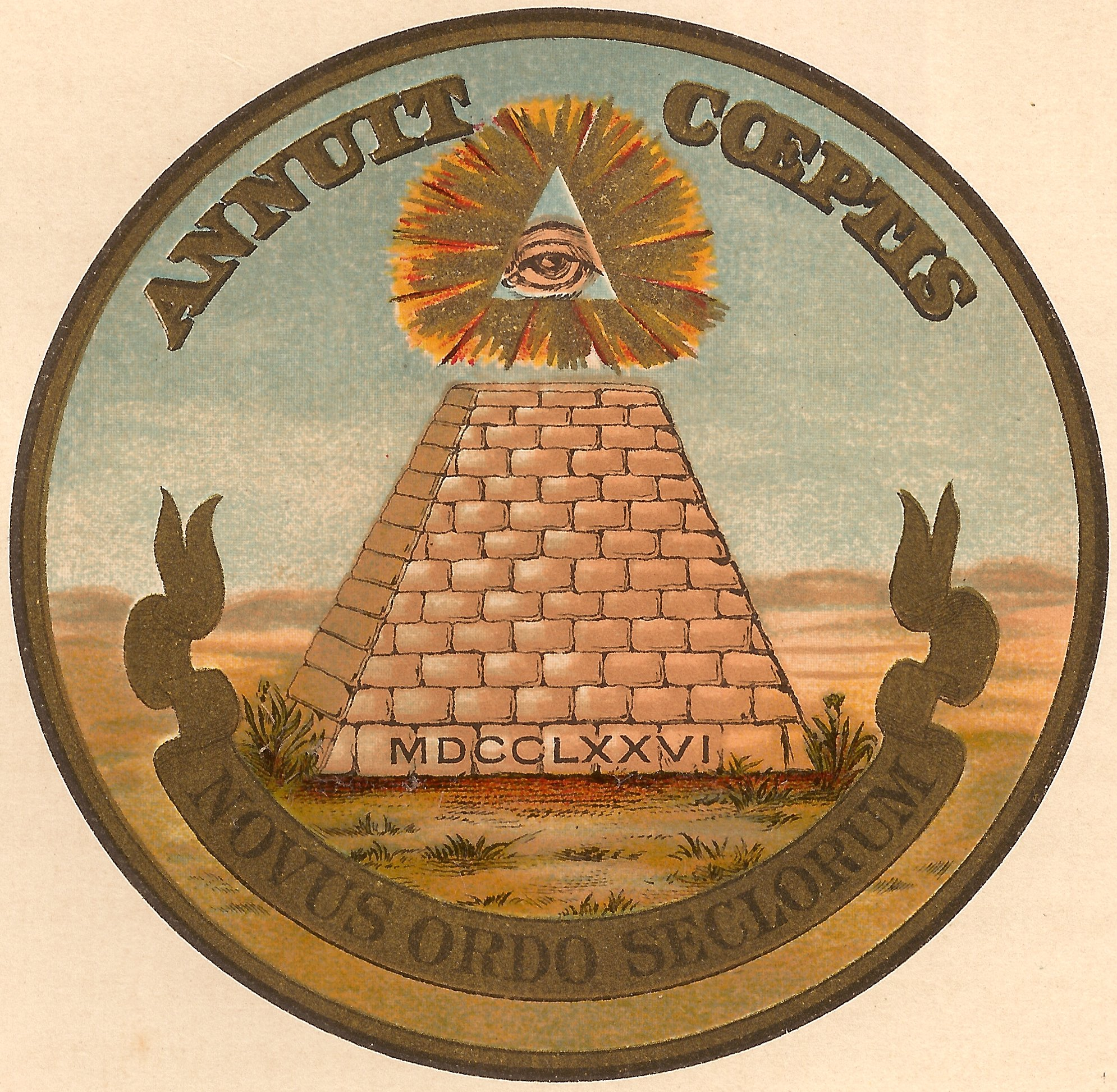 Version of the reverse of the Great Seal of the United States printed in a 1909 U.S. Government booklet on the Great Seal. According to w: Henry A. Wallace, this was the version of the Great Seal reverse which caught his eye, causing him to suggest to President Franklin Roosevelt to put the design on a coin, at which point Roosevelt decided to put it on the back of the dollar bill.